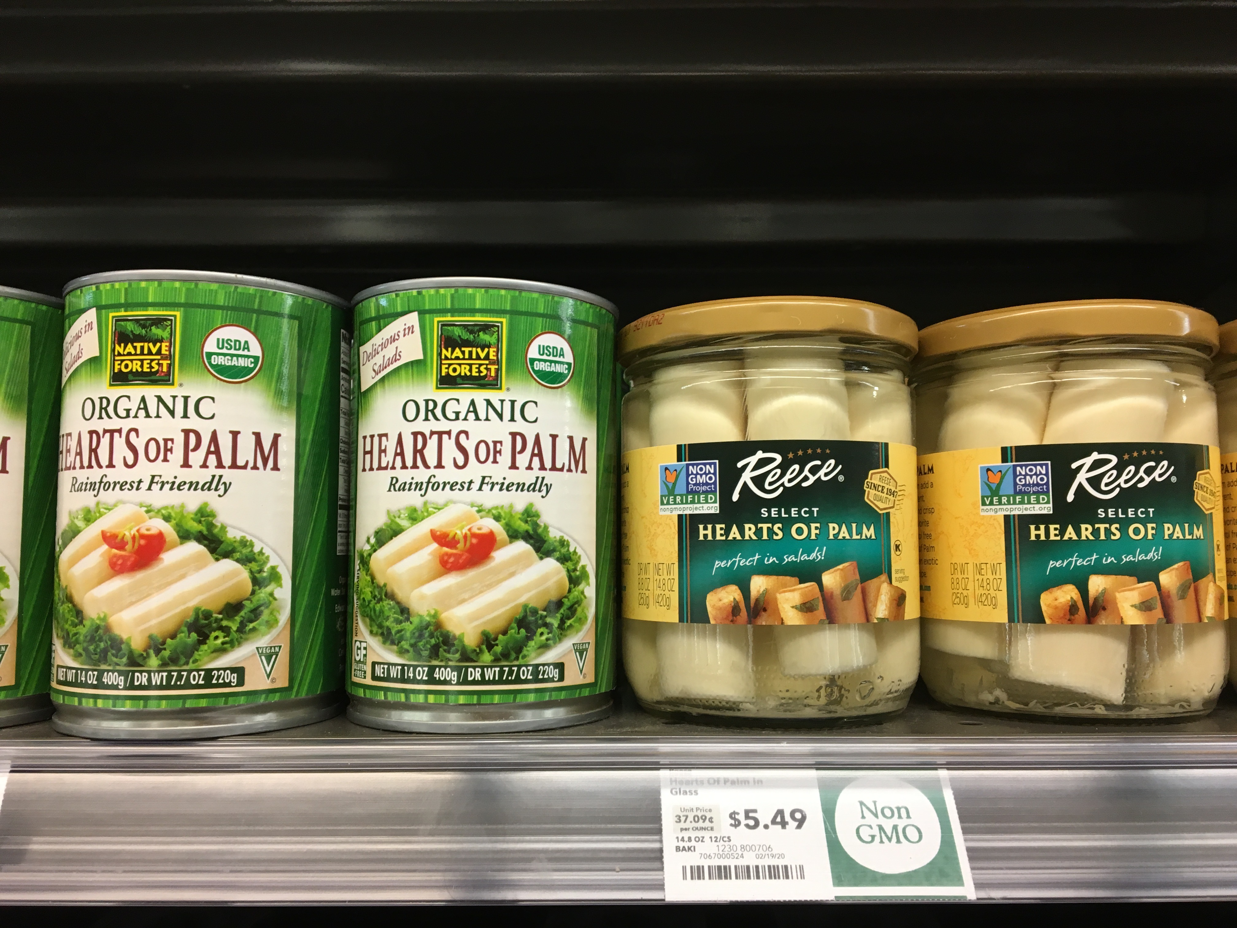 Hearts of Palm in jars, sold at a grocery store in the United States